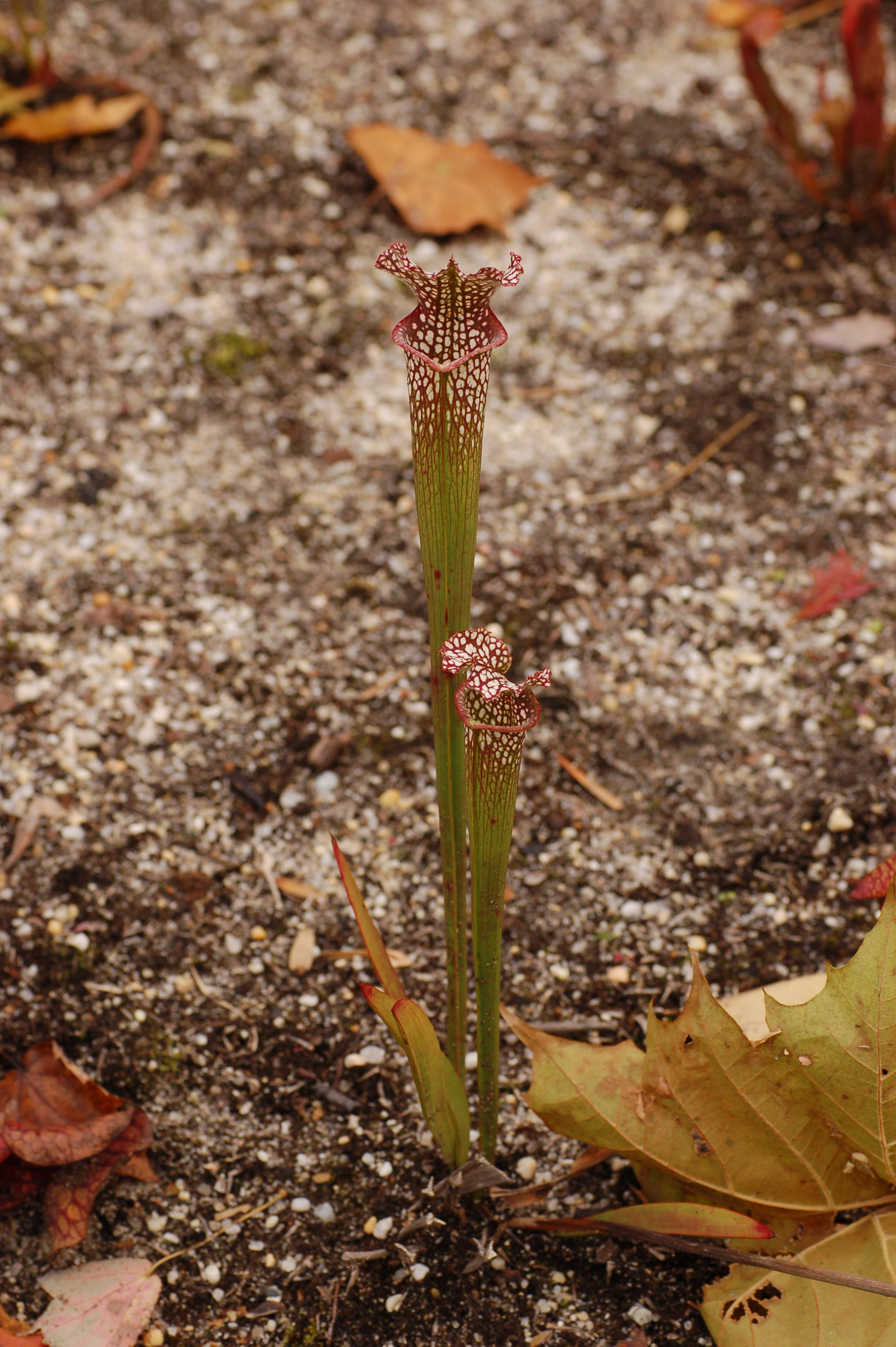 Picture of Pitcher Planten Sarracenia leucophylla en . Photo taken at the Chanticleer Garden in the bog garden.